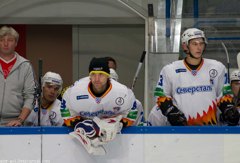 KHL game Amur Khabarovsk vs. Severstal Cherepovets on October 16, 2011. Severstal goalie Vasiliy Koshechkin (in center) allowed three goals and was replaced. Ruslan Nurtdinov is on his left, Maxim Chudinov is on his right.